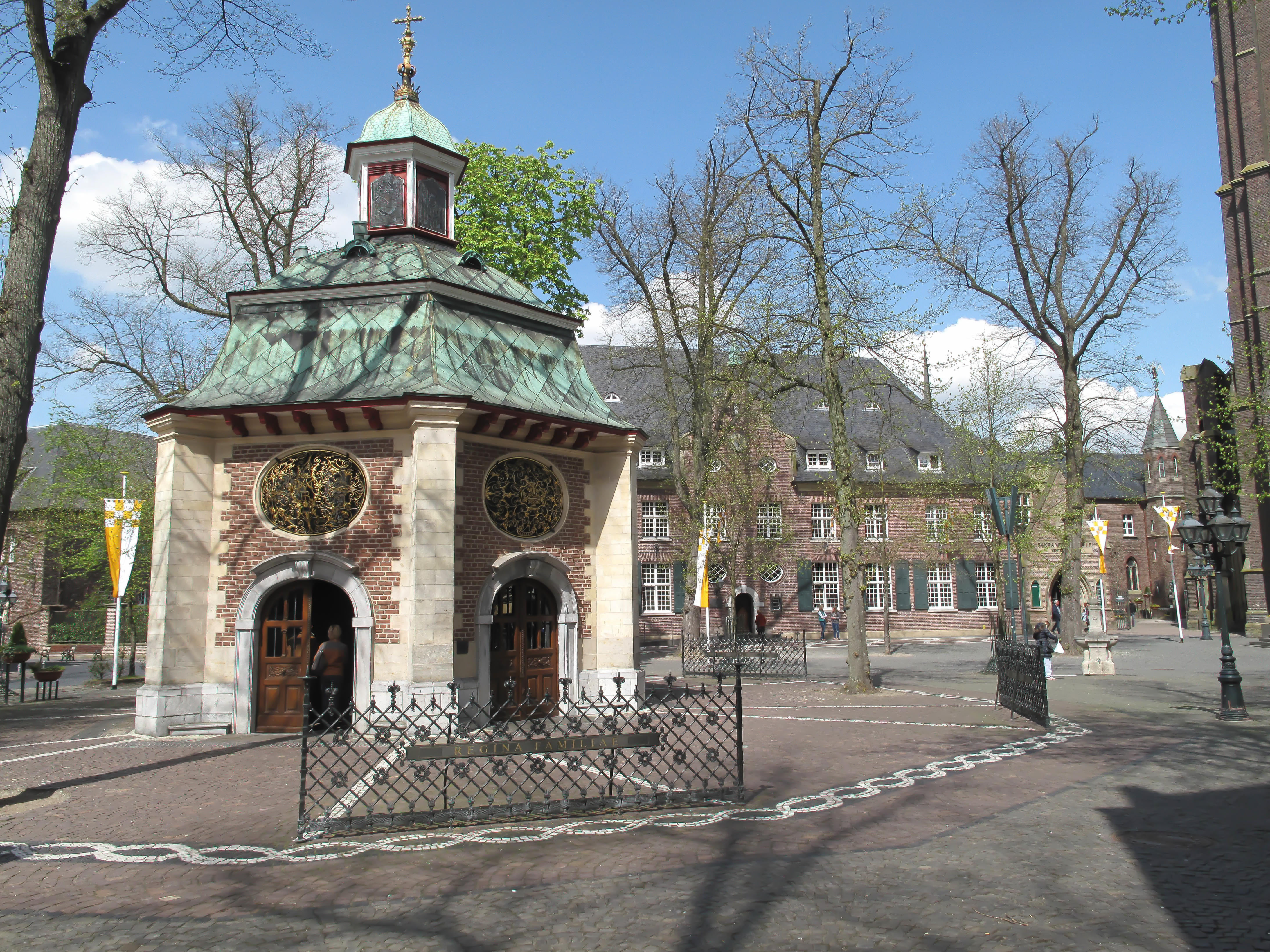 Kevelaar, chapel near basilique